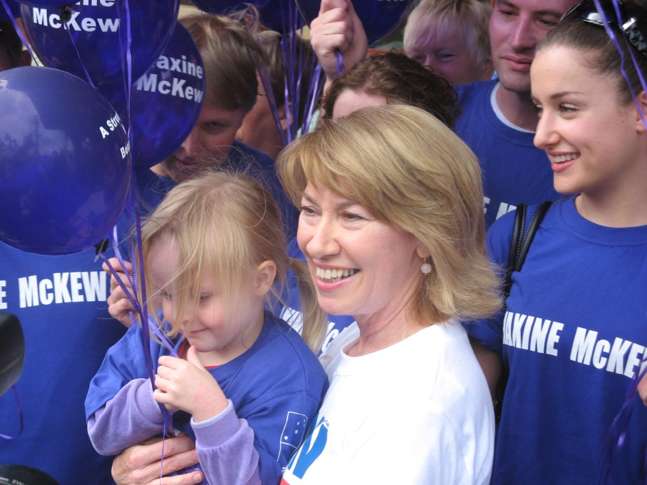 Labor Party candidate Maxine McKew with a fan. During the 2007 federal election campaign for the NSW seat of Bennelong at which she defeated the sitting Prime Minister John Howard.